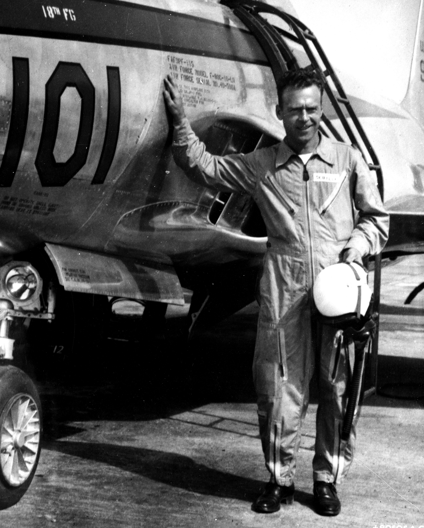 Louis J. Sebille, United States Air Force, Korean War Medal of Honor recipient.